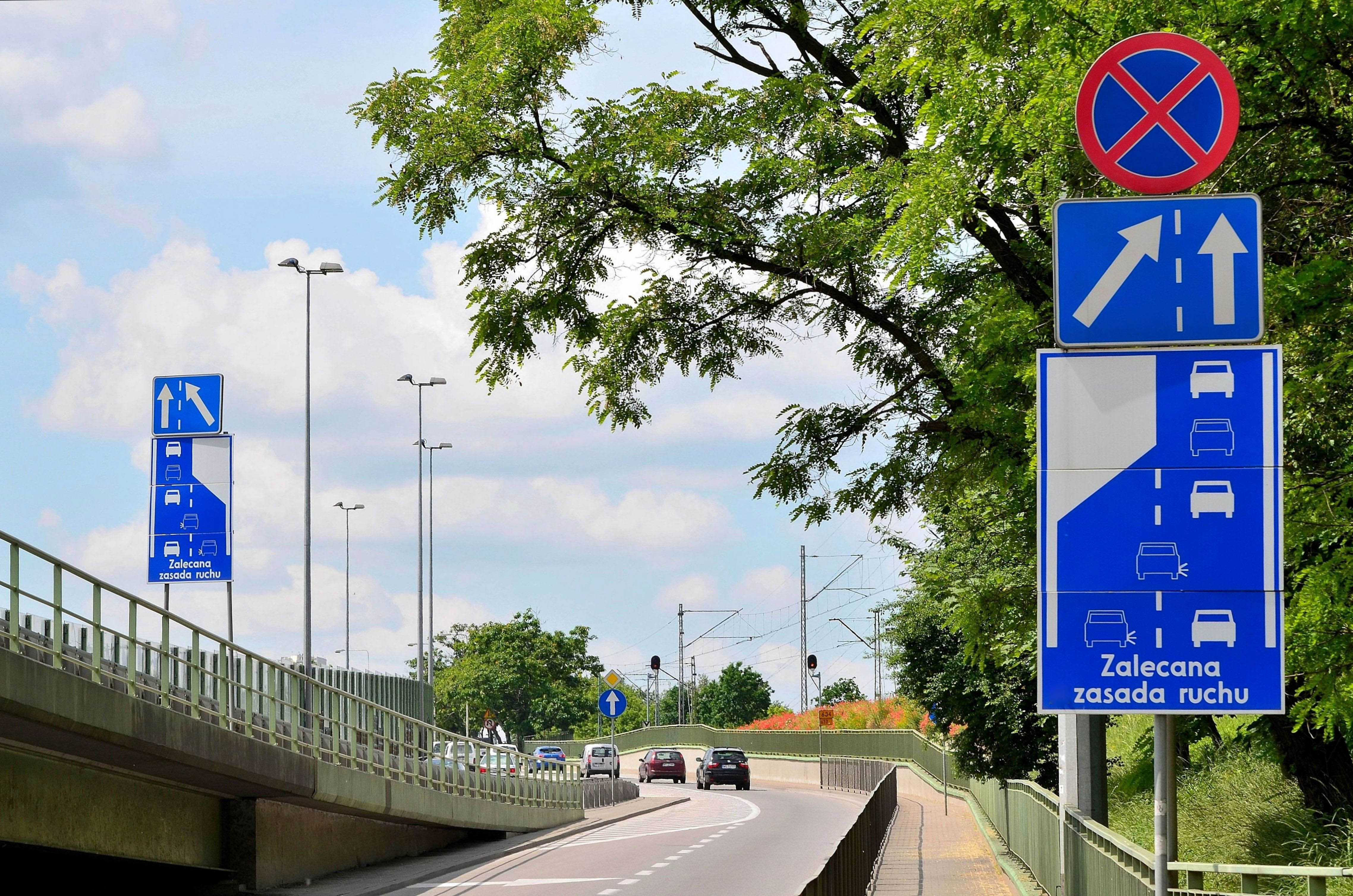 Road signs recommending "zipper method" in Starzyńskiego Street in Warsaw (view towards Gdański Bridge)